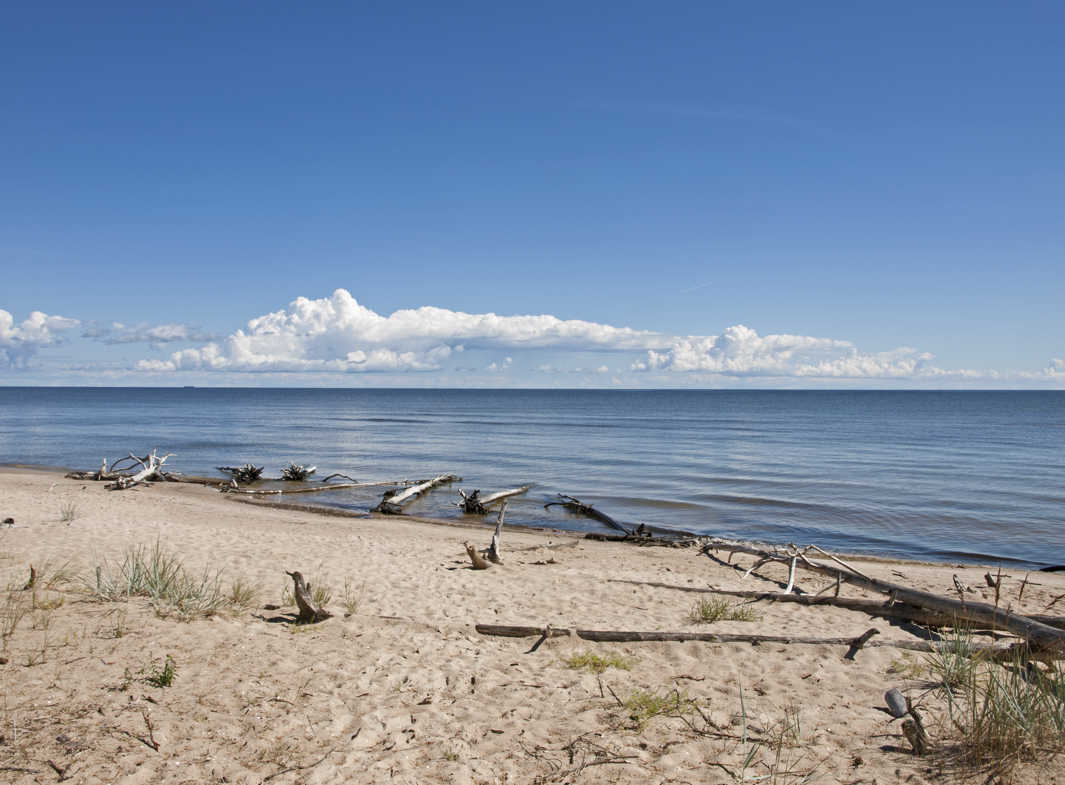 Coast at the eastern side of Kolkasrags